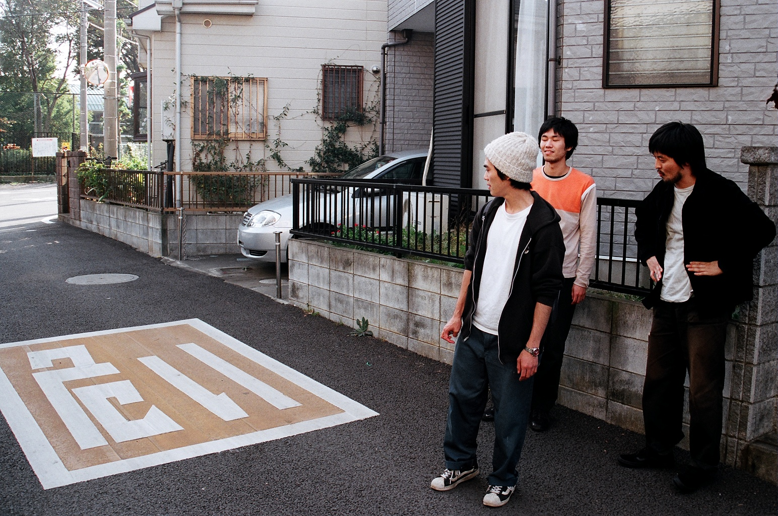 Danger sign (painted as a road marking) on the ground of a narrow living street without separated sidewalks in Japan. It displays the shortened okurigana “危い” (abui), standing for the Japanese term “危ない” (abunai, meaning “danger”). With simplified bold strokes, it is composed of the kun’yomi kanji sign “危” (abu) trailed only with the final hiragana syllable “い” (i), painted and outlined in white on a red square cell.